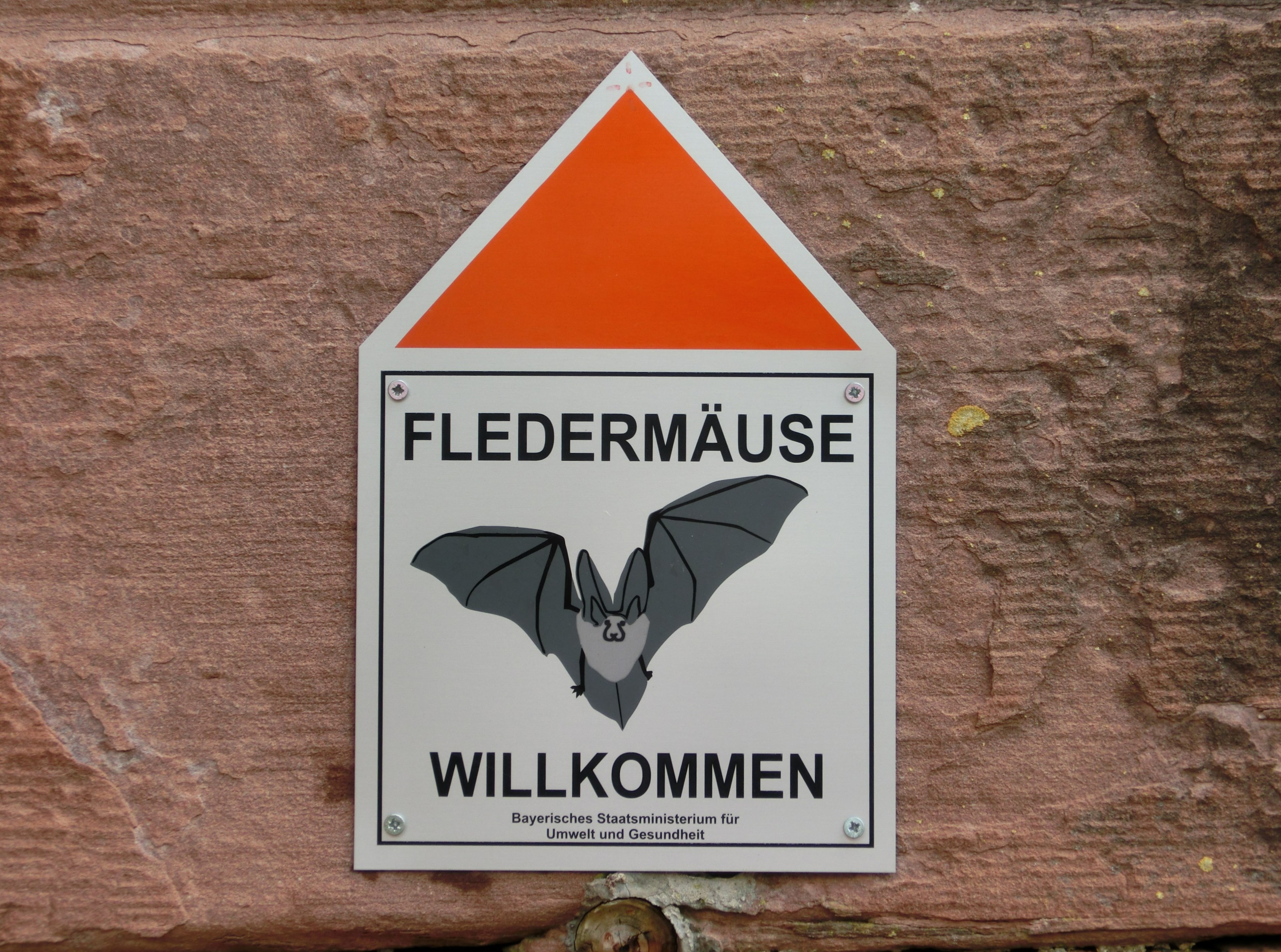 Germany - Bavaria - Würzburg, Marienberg Fortress: sign "FLEDERMÄUSE WILLKOMMEN" (= 'microbats welcome')